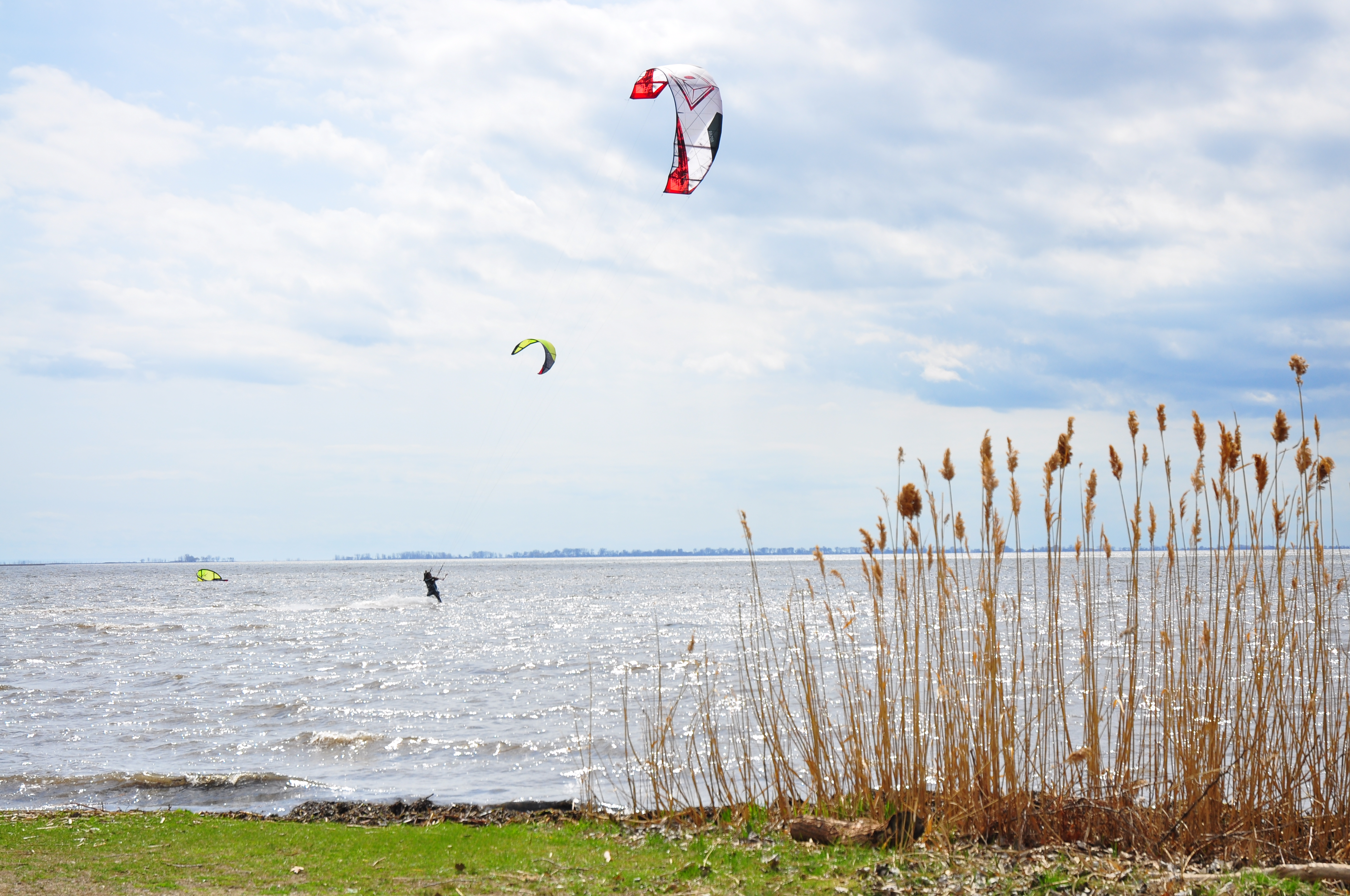 Bay Side Windsurfing at Rondeau Park in April